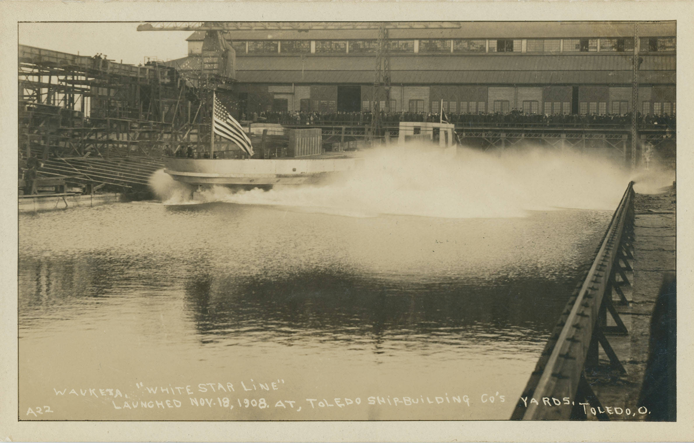 A postcard from the Ken Levin Toledo Poscard Collection, donated by Toledo resident, Ken Levin. The collection contains picture postcards about the Toledo area. Mr. Levin's collection was published by the Toledo Blade in a book entitled "You Will Do Better in Toledo: From Frogtown to Glass City", edited by Sandy and John R. Husman.